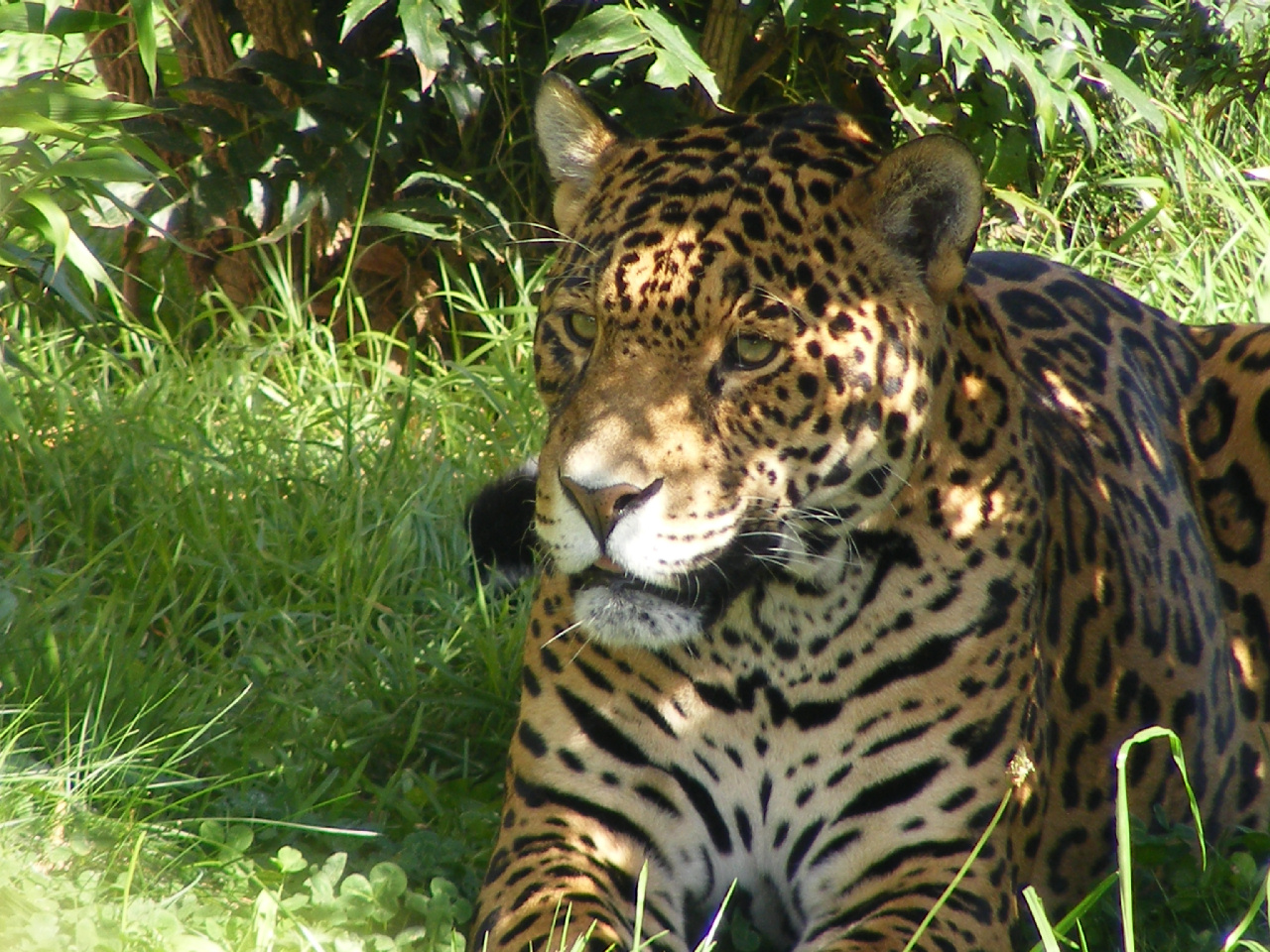 Jaguar in the Shade